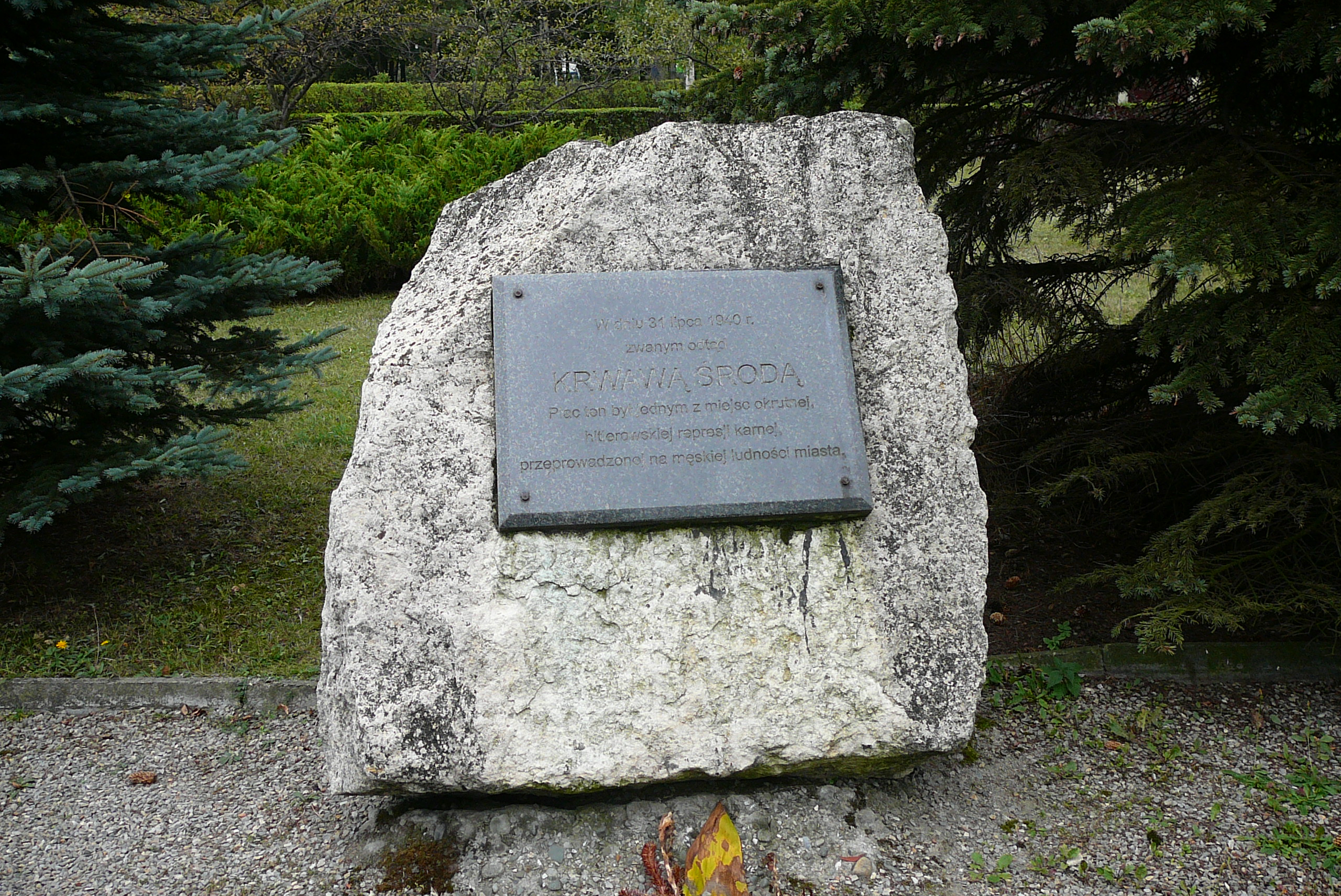 Memorial stone commemorating Poles and Jews from Olkusz who were beaten, tortured and humiliated at this place by Nazi-German occupants during the events known as „Bloody Wednesday in Olkusz” (July 31, 1940). Square in Olkusz.